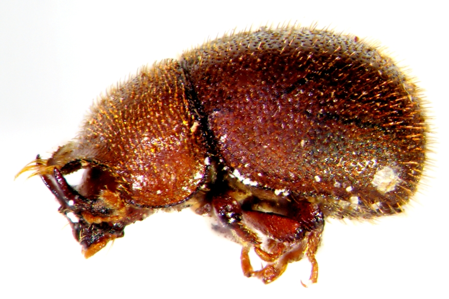 Lateral view of the holotype of Falsocis brasiliensis Lopes-Andrade, 2007, an endangered Brazilian species of Ciidae